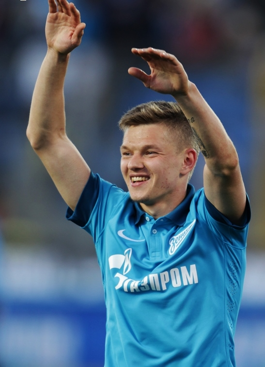 Oleg Shatov